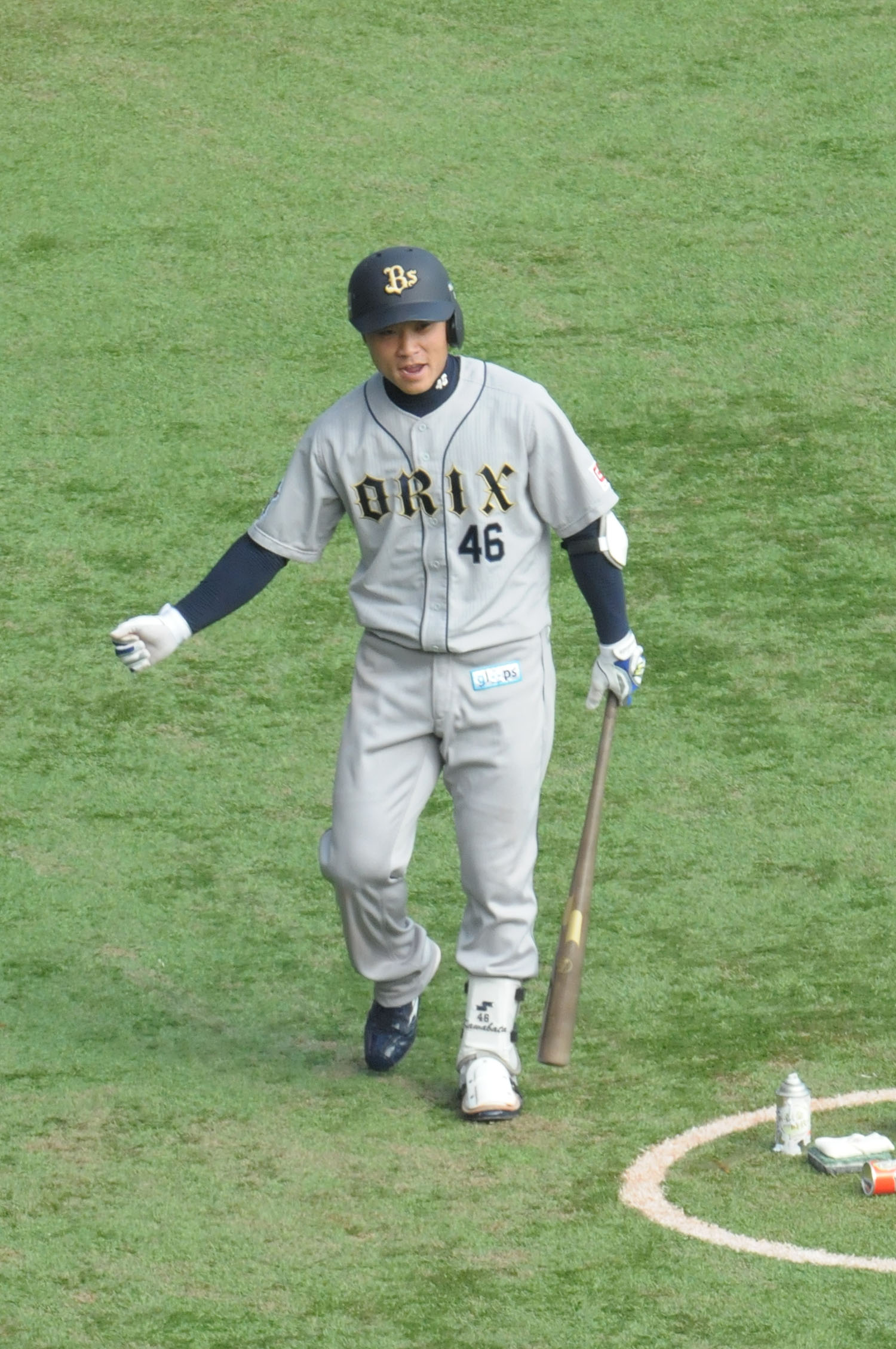 Takayoshi Kawabata, outfielder of the Orix Buffaloes, at Chiba Marine Stadium